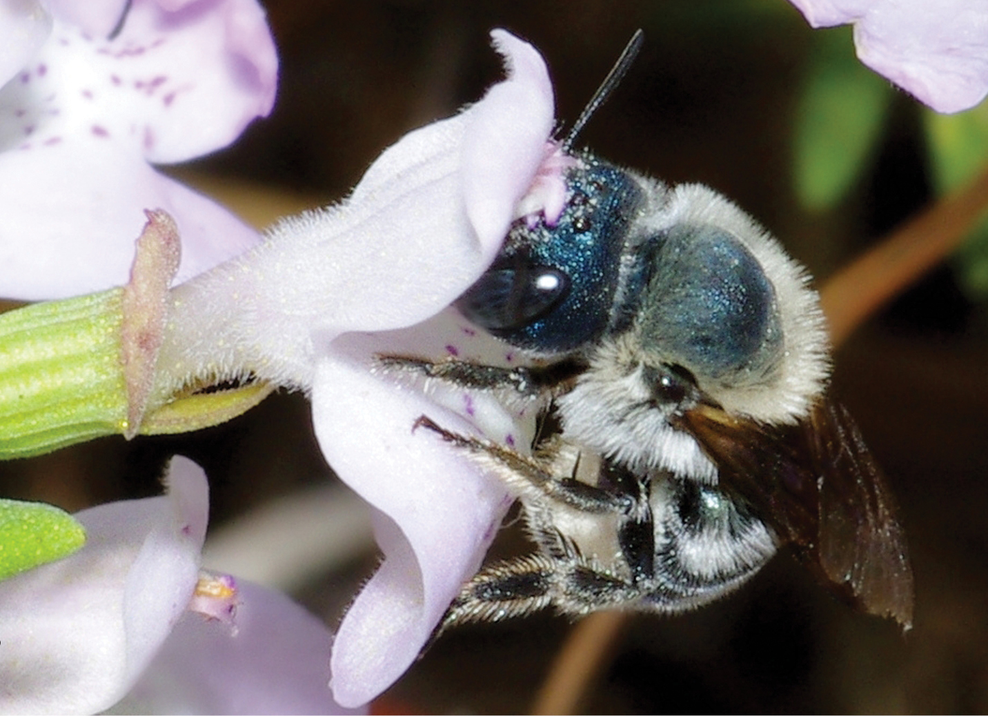 Osmia calaminthae visiting flowers of Calamintha ashei at Lake Placid, Highlands County, Florida.